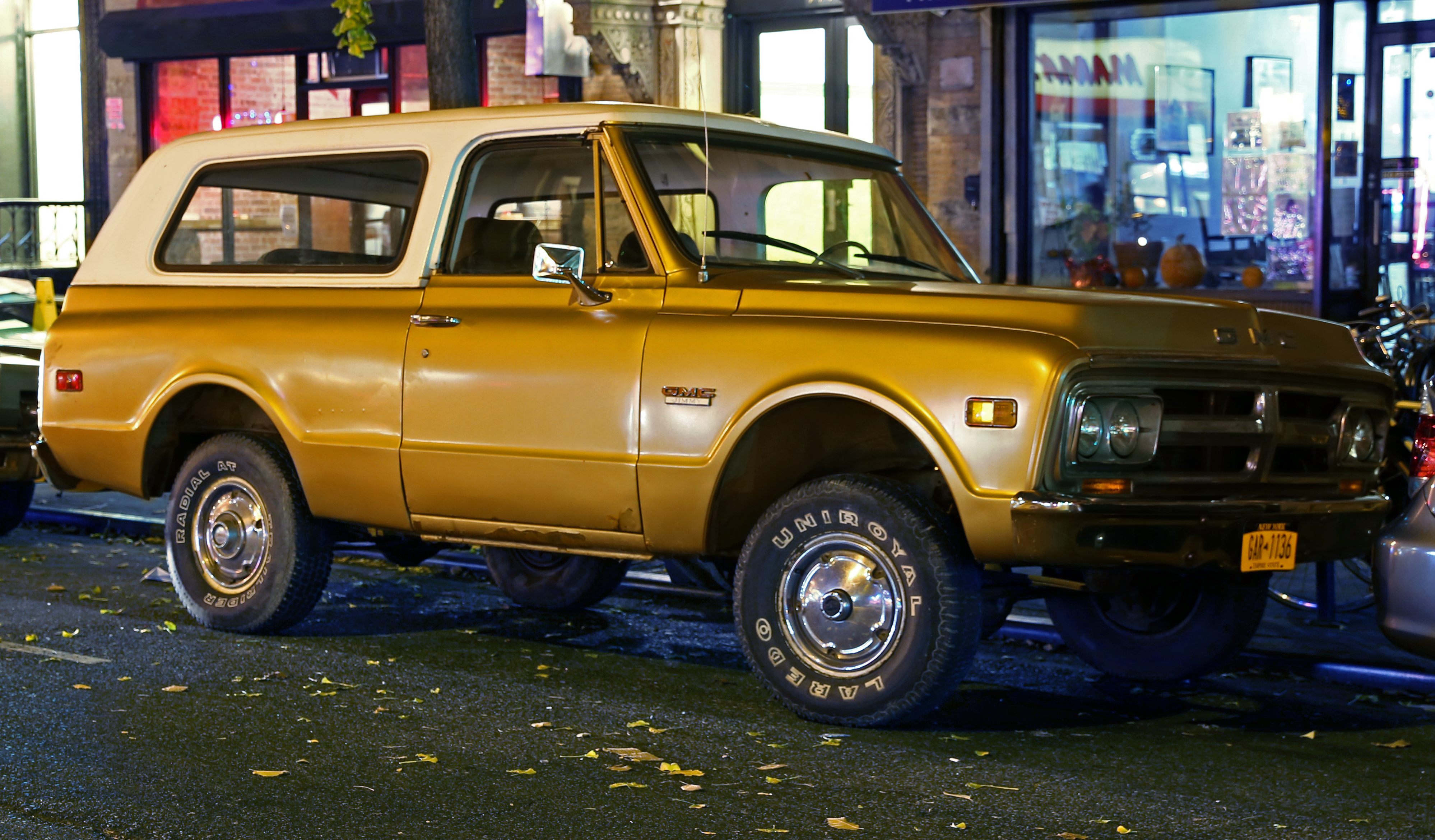 1970-1972 GMC Jimmy K5 of the first generation. At the site of a film shoot in NYC's Upper West Side.